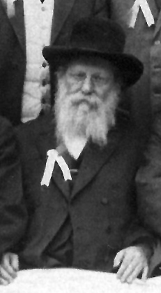 First National Meeting of American Orthodox Rabbis ca 1920. Meeting held at Congregation Shaarey Zedek, Brush and Willis. Rabbis pictured on steps of synagogue. The meeting was convented byRabbi Judah Levin. Bottom row eighth from left: Rabbi Meyer Berlin, president of American Mizrachi, tenth: Rabbi Aaron Shinsky; eleventh:Rabbi Judah Leib Levin twelfth:Rabbi Abraham Hershman; fourteenth: Rabbi Ezekiel Aishiskin. Third row, far right: Abba Keiden fourth row, third from right: Max Jacob ( courtesy Archives of Congregation Shaarrey Zedek).